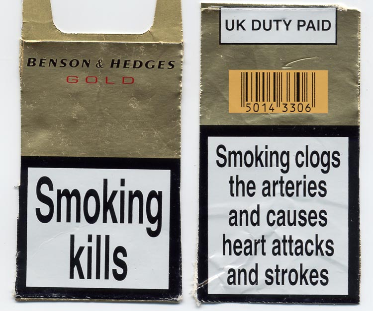 The front and back of a UK cigarette packet (in 2003).